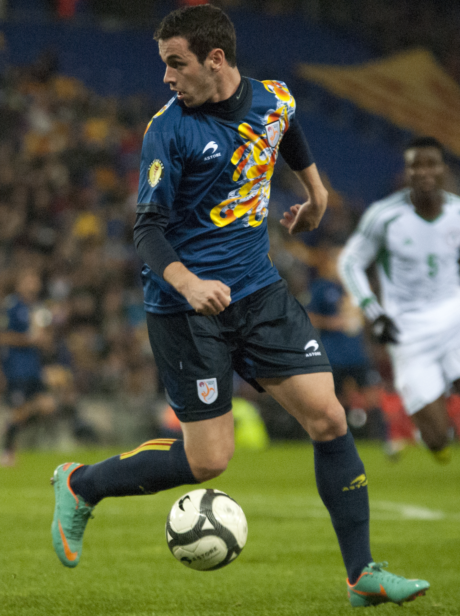 Álvaro Vázquez during friendly match Catalonia vs. Nigeria